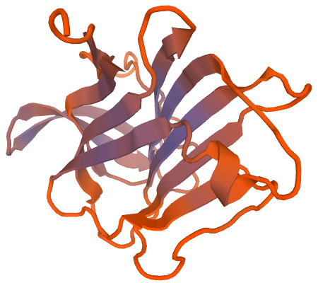 Predicted tertiary structure of C3orf67 through the first approximately 180 amino acids.